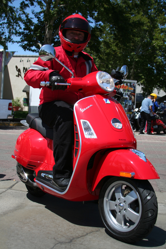 My dad on his GTS250, gettin ready to lead a pack of scooter hoodlums on the 4th annual Temecula Valley Wine Ride